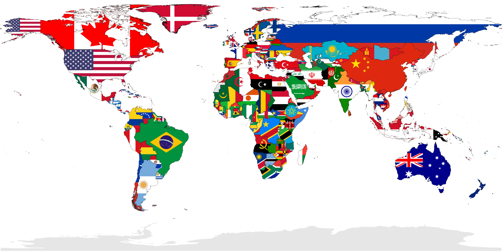 Flags of United Nations member states on an equirectangular world map. Bitmap version of "File:Flag-map of the world.svg", which is higher quality but has rendering issues.